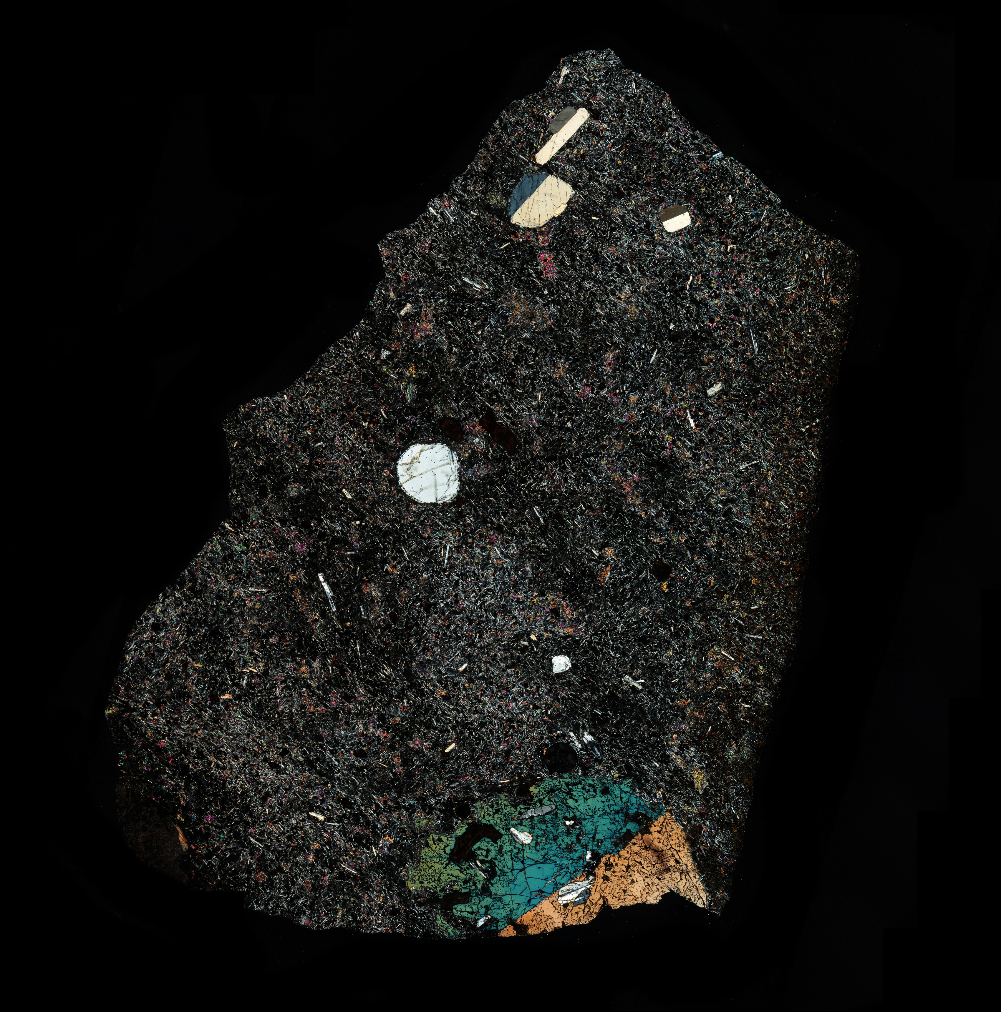 To study rocks using special preparations - thin sections. These are thin (0.03 mm) rock plates glued to a glass slide and covered with a coverslip. On the photo you can see the basalt thin section in crossed nicols. Basalts are calledmafic extrusive igneous rock with specific mineral composition and microstructure. As can be seen in the photo, the rock is almost completely composed of plagioclase microlites (light gray) and clynopyroxene (colored) formed during solidification of the lava. However, one can observe large crystals of clynopyroxene (bottom right, colored) and plagioclases (rounded grains in the center and top), which formed in magma long before its eruption. This panoramic image was obtained by gluing together 45 images, FOV 25 mm.